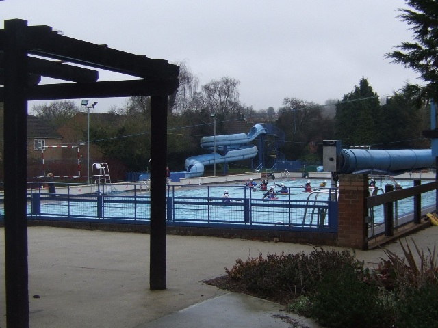 Outdoor pool at Woodgreen Leisure Centre